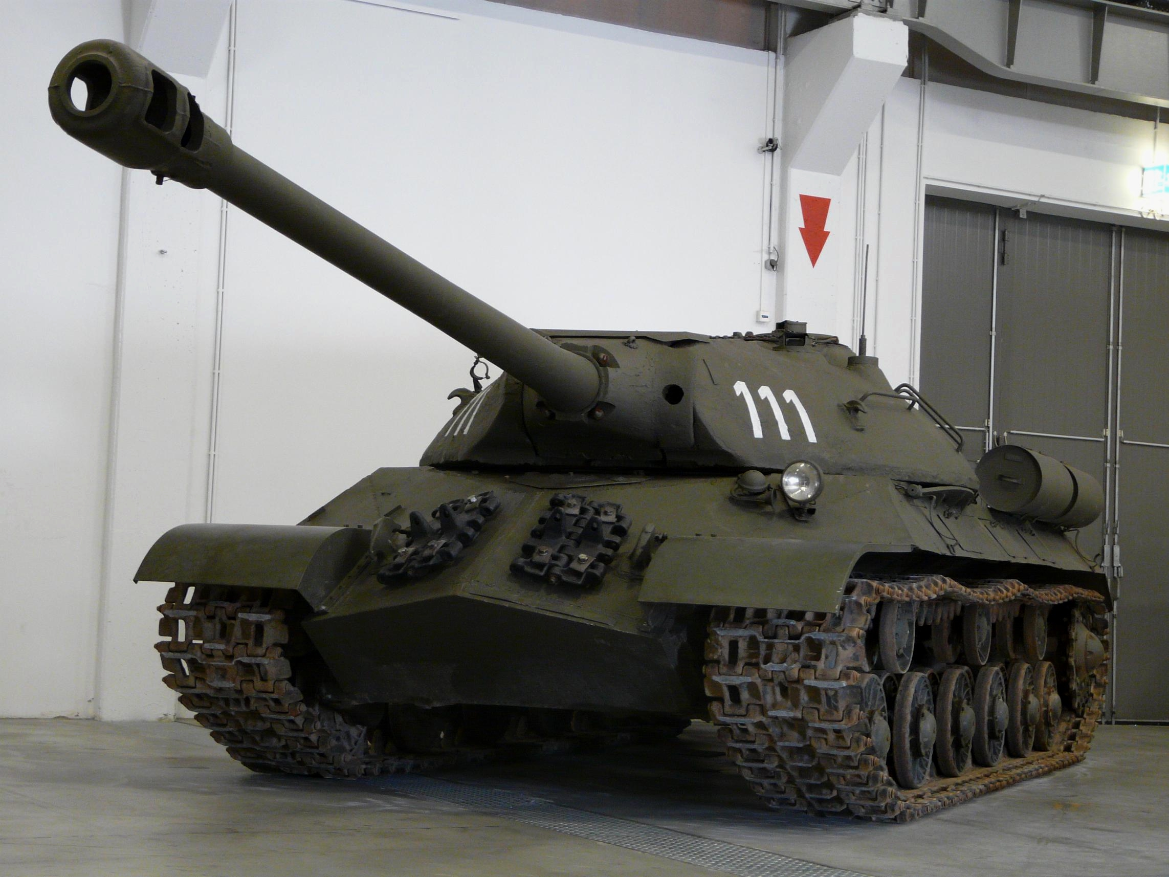 Soviet Heavy Main Battle Tank IS-3 in the Bundeswehr Military History Museum.